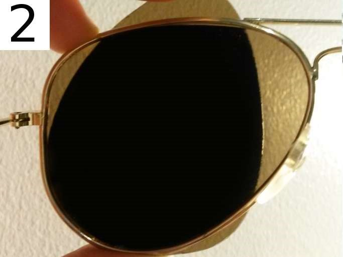 One panel from File:Test for polarized and non-polarized sunglasses.jpg